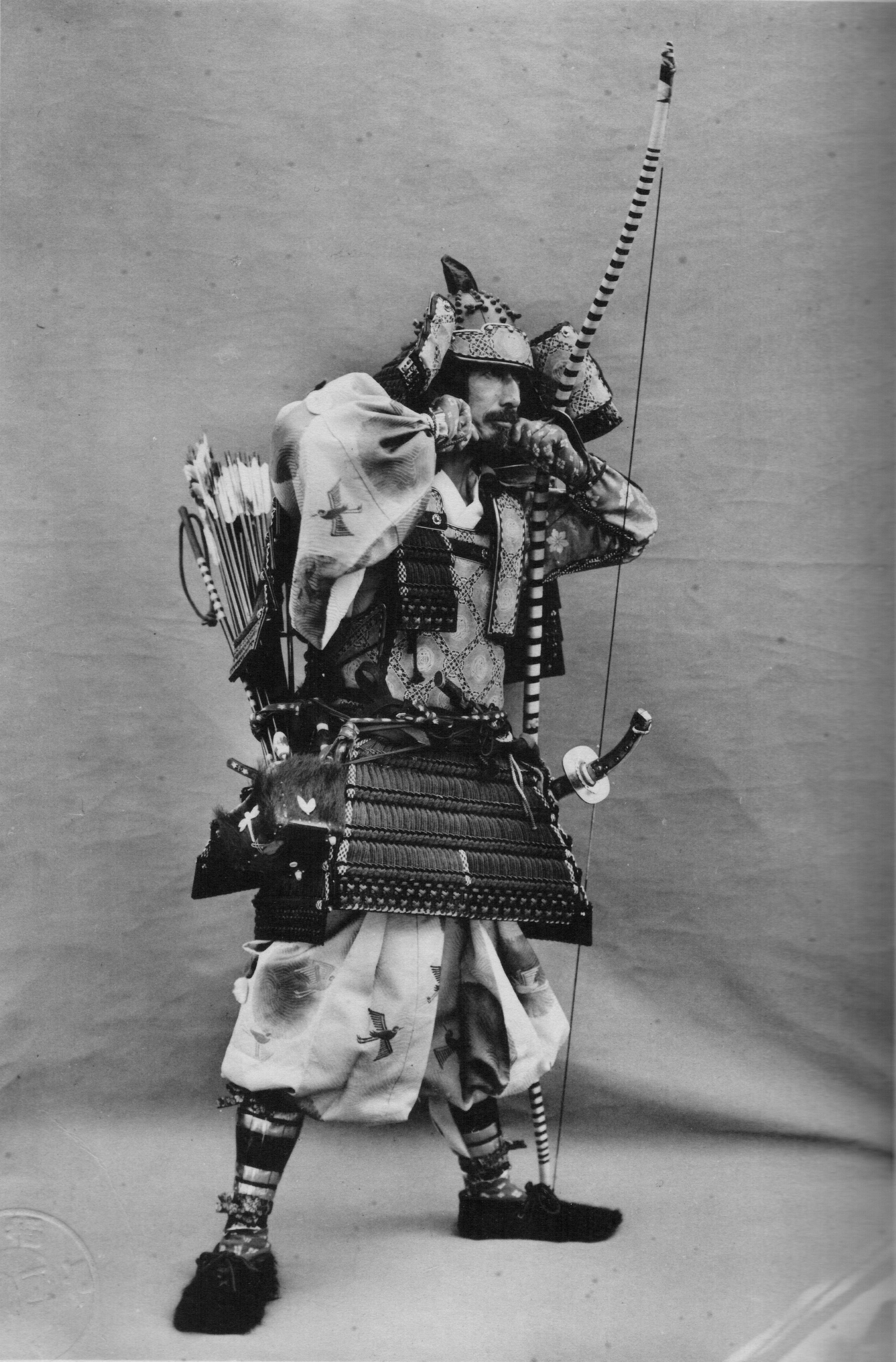 A man wearing a replica of Kon'ito-odoshi Ō-yoroi (Ō-yoroi laced by navy braid) at Ōyamazumi Shrine in Ehime Prefecture.